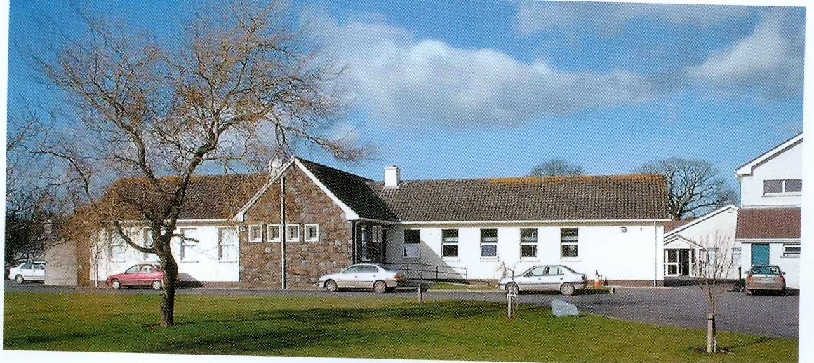 Scoil Airegail